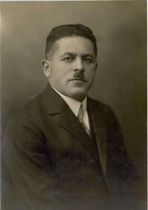 Marko Natlačen (1886-1942), slovenian politician